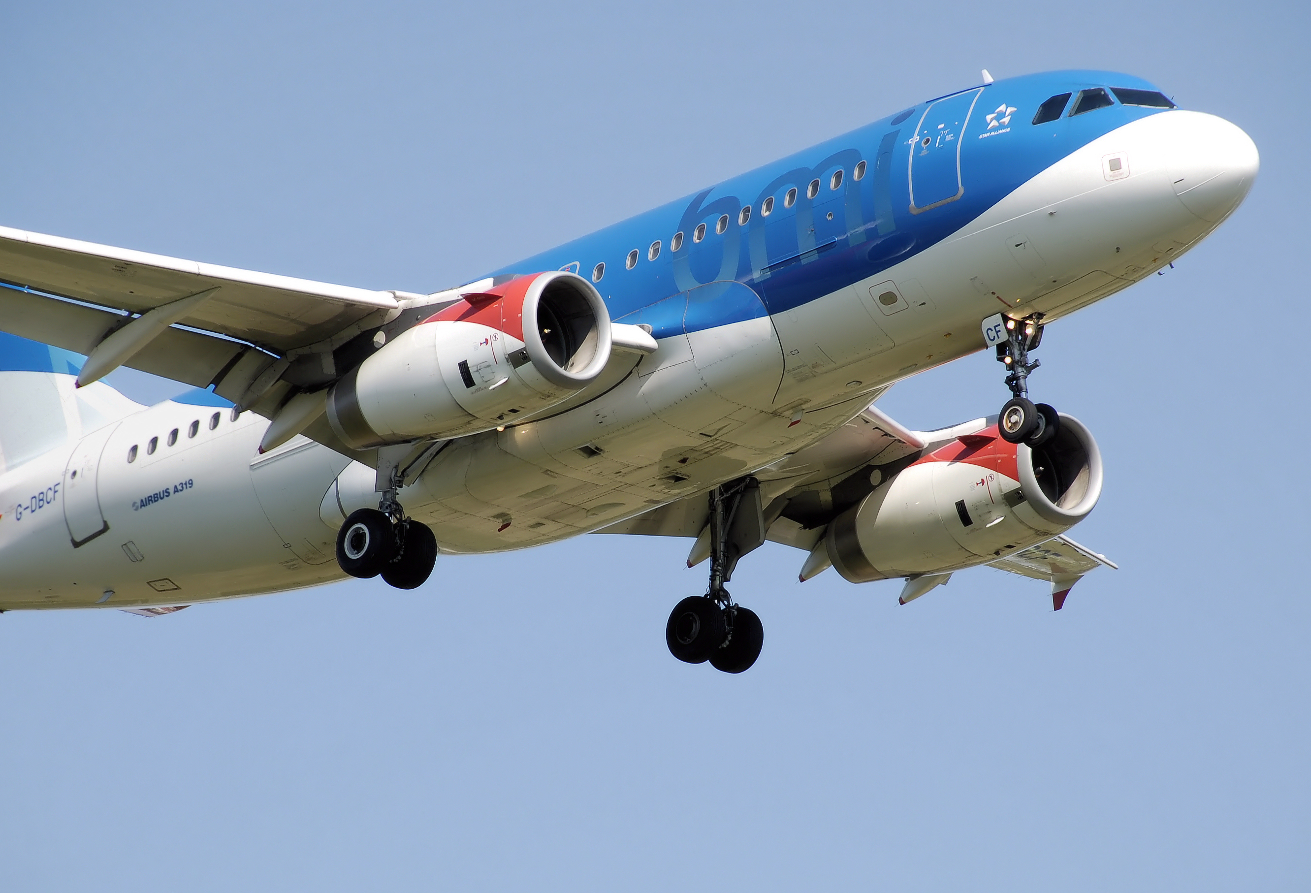 Bmi Airbus A319-100 (G-DBCF) lands at London Heathrow Airport, England.